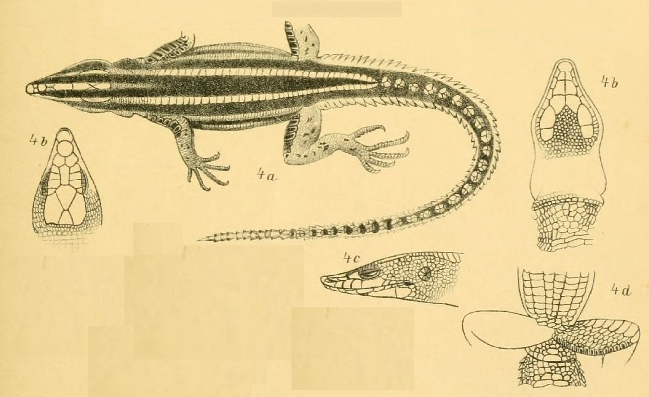 Drawing of Holaspis laevis